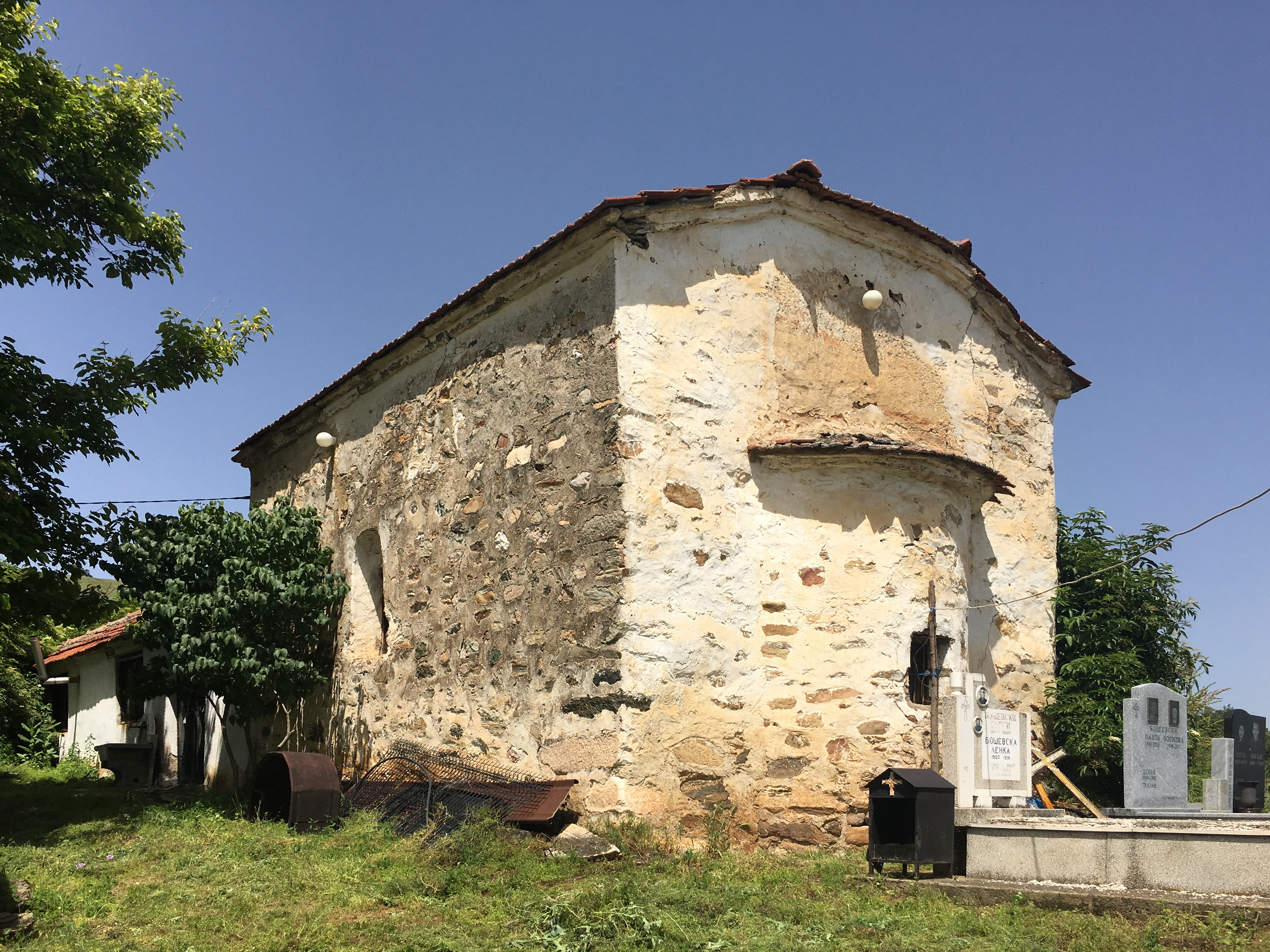 Nativity of the Theotokos Church in the village of Podino